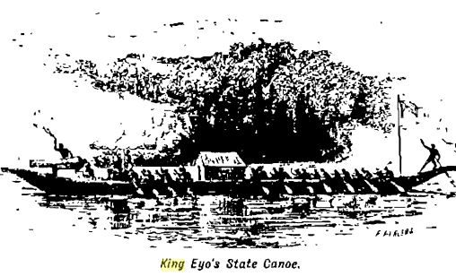 Illustration from Calabar and Its Mission (1890) by Hugh Goldie, showing King Eyo's State canoe